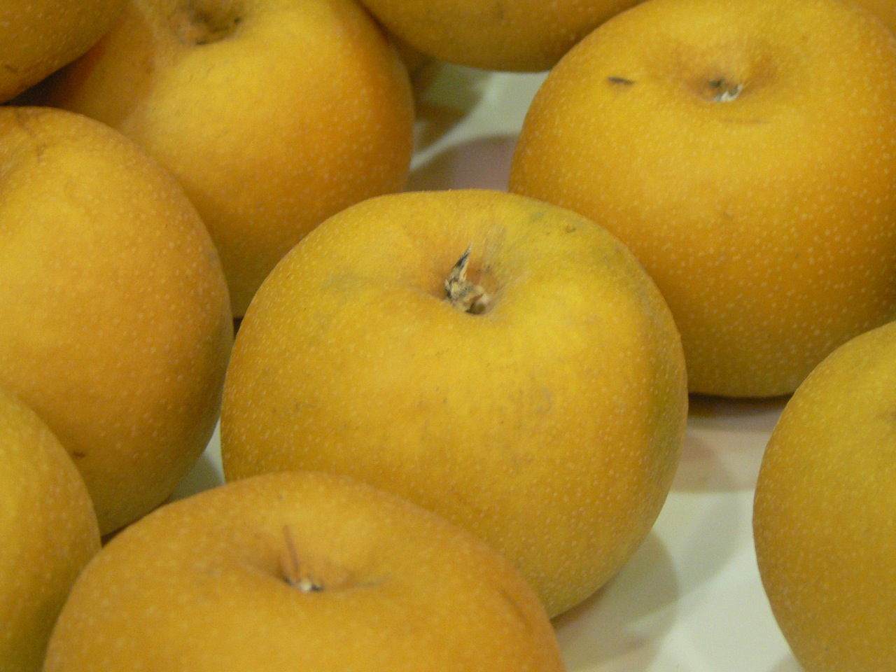 Pyrus pyrifolia, commonly called as Asian pear, ya pear, Korean pear, Japnaese pear, Nashi pear